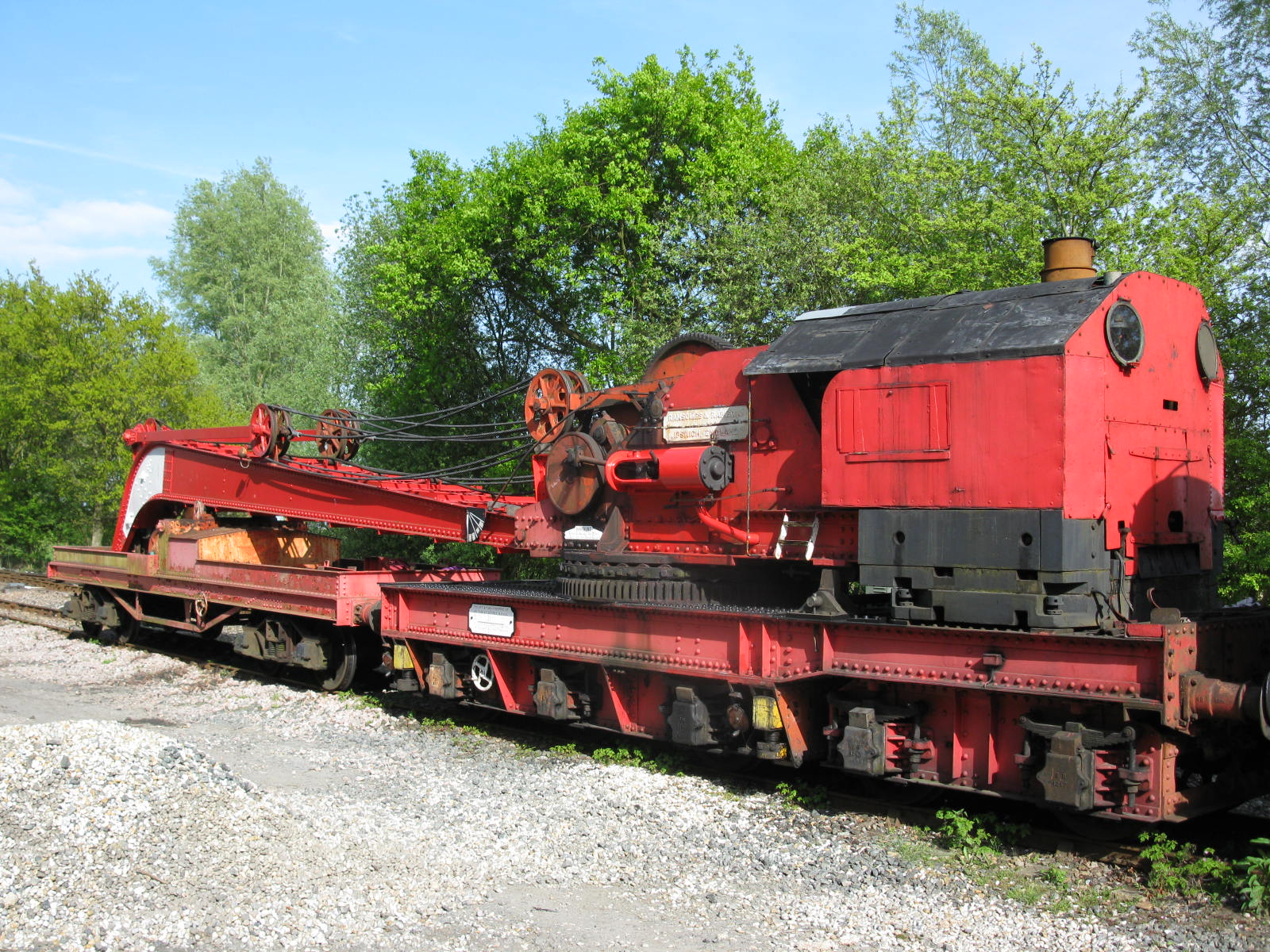 Ransomes & Rapier steam crane 81S at Bodiam station, Kent and East Sussex Railway.